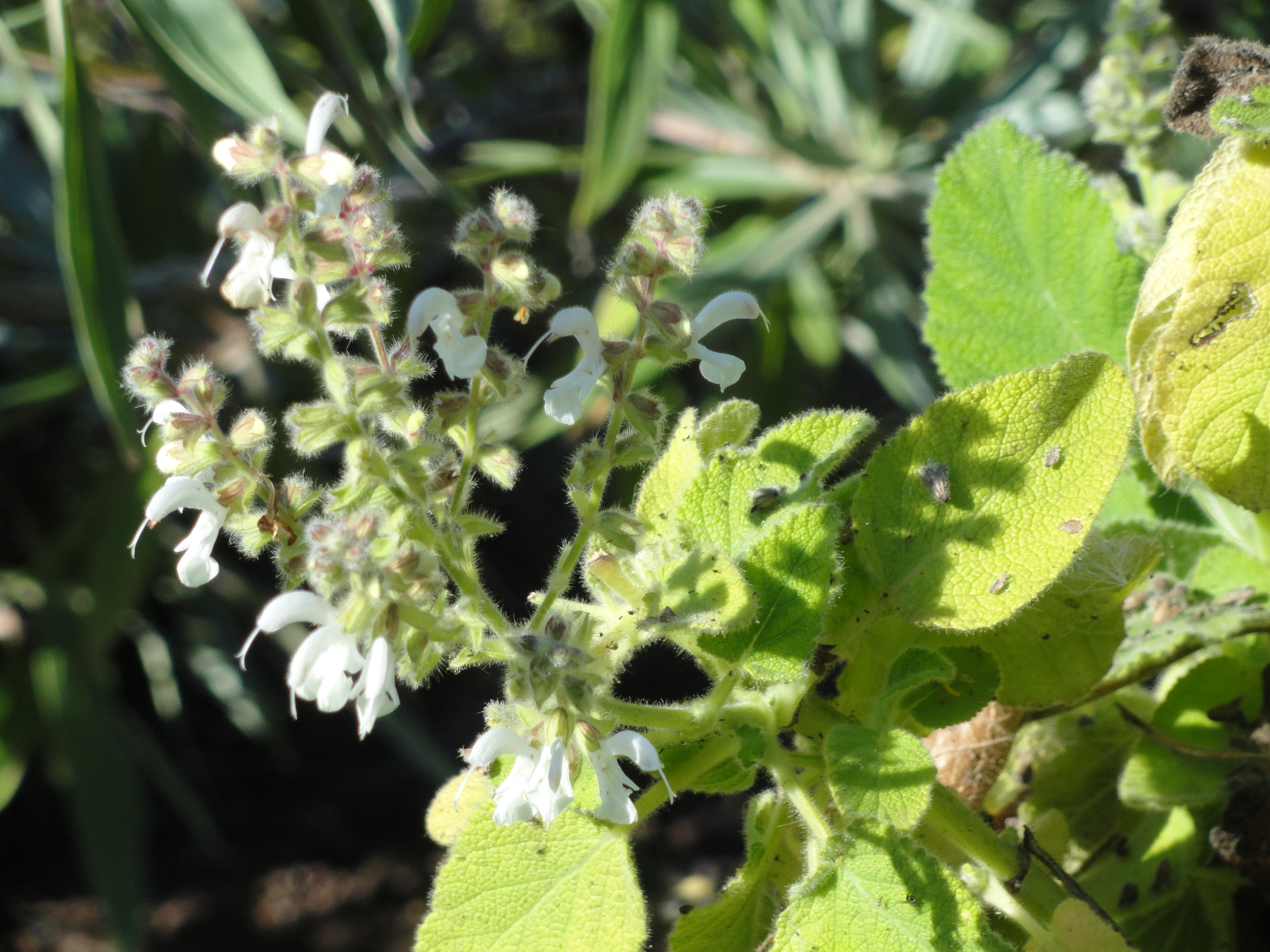 Botanical specimen in the Botanischer Garten, Frankfurt am Main, located at Siesmayerstraße 72, Frankfurt am Main, Germany.